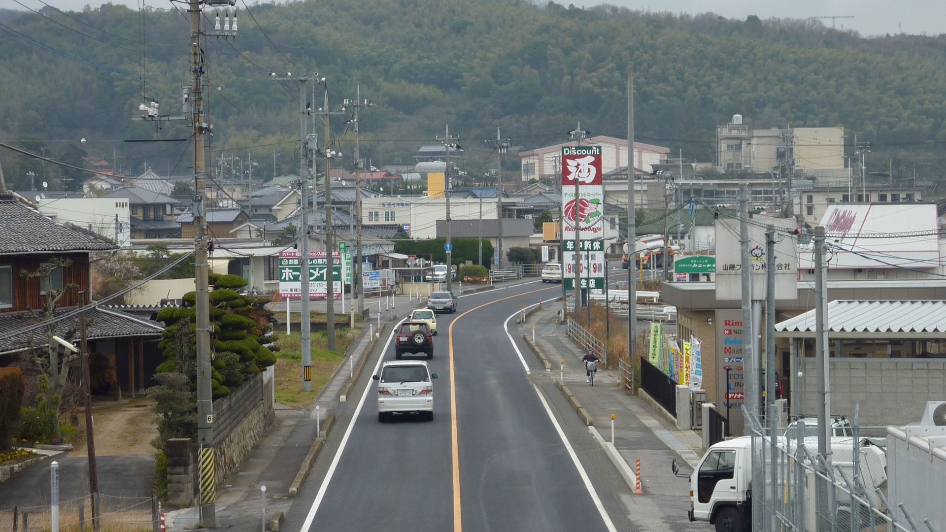 National Route 190 - Habu, Sanyo-Onoda City, Yamaguchi Prefecture, Japan.